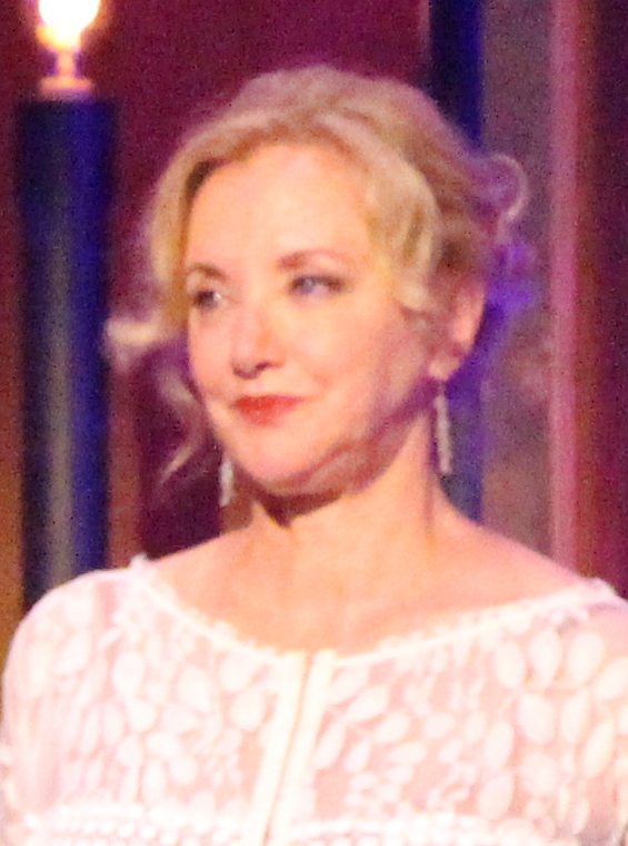 Creator, Writer, Executive Producer Ray McKinnon accepts the Peabody for Rectify. He is joined on stage by Mark Johnson, Clayne Crawford, Aden Young, J-Smith Cameron, Abigail Spencer and Melissa Bernstein.